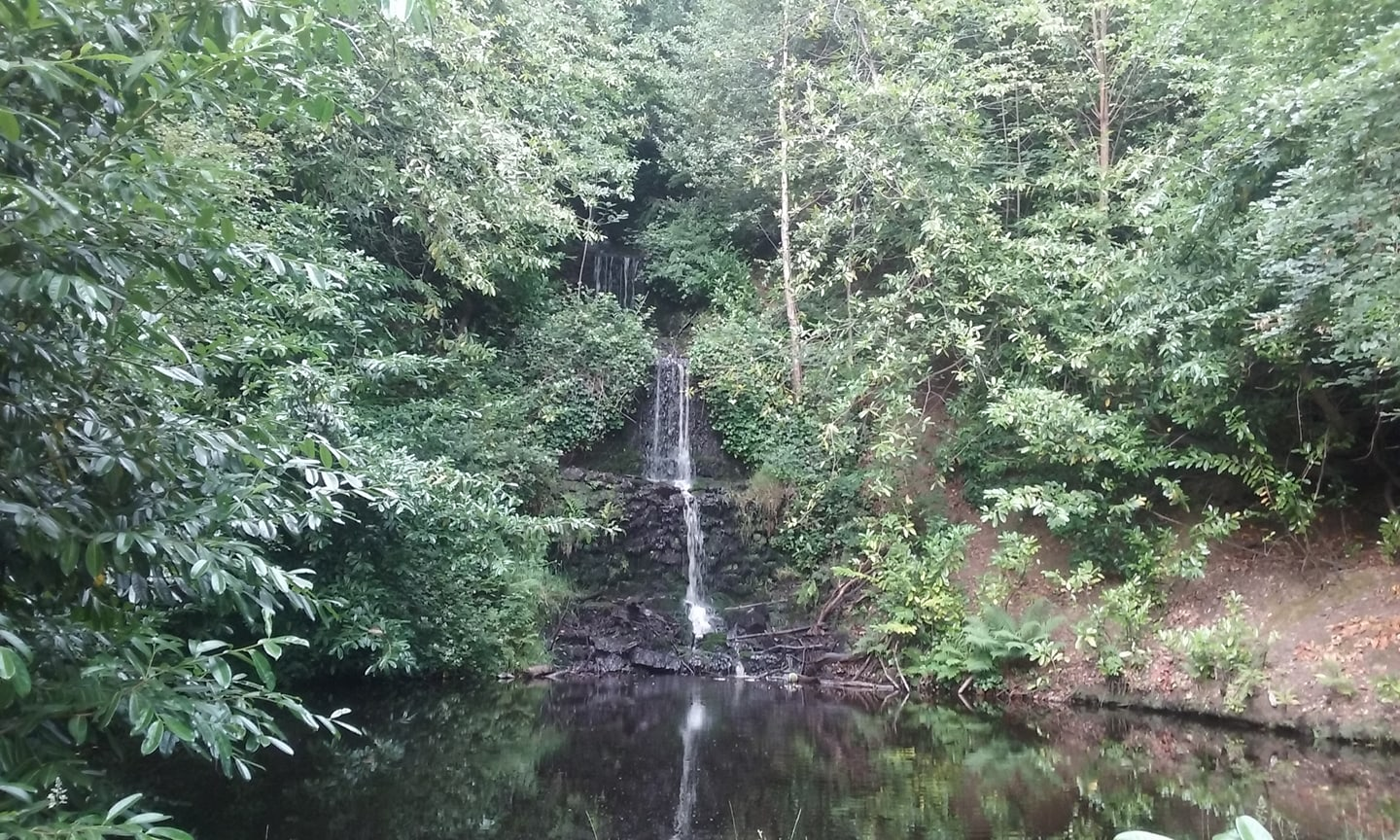 Tillingbourne Waterfall, towards Mandrakes, Broadmoor, Wotton.